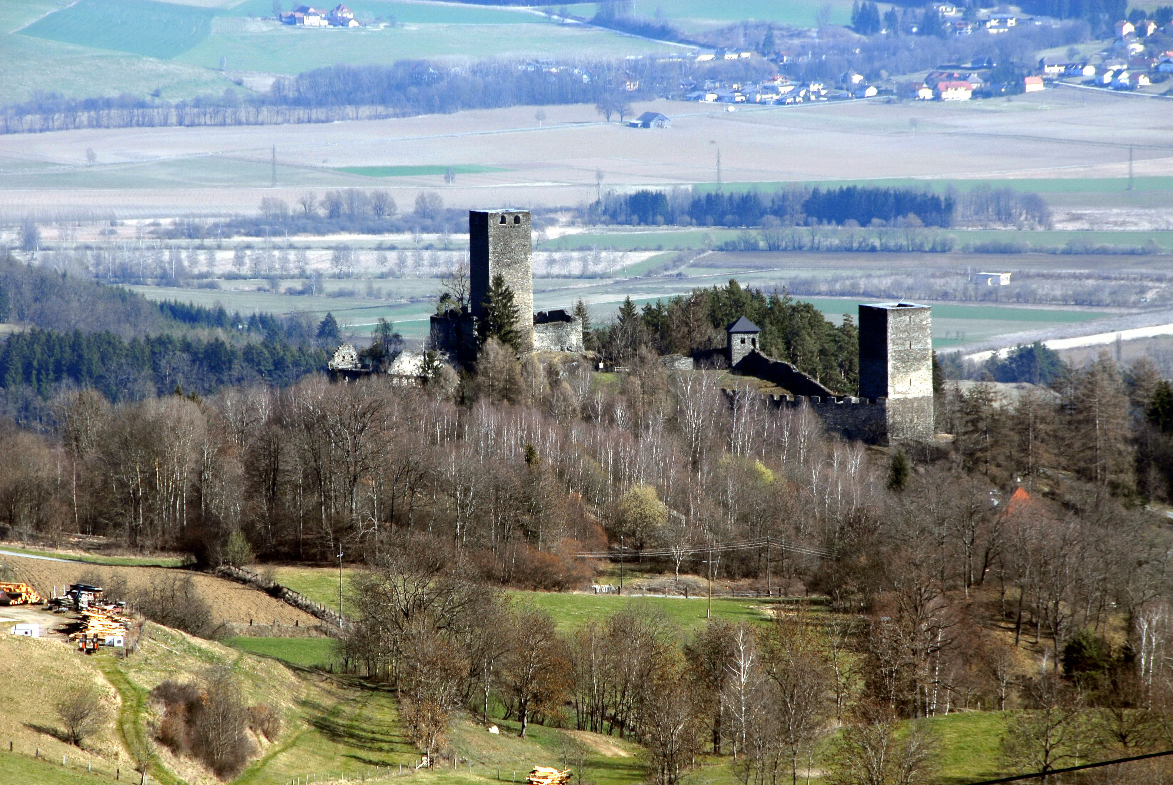 Twin castle-ruin of Liebenfels in the community Liebenfels, district Saint Veit on the Glan, Carinthia, Austria